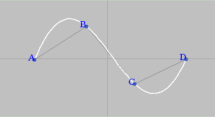 Example of Lagrange polynomial